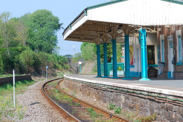 Criccieth railway station Original description: Gorsaf Criccieth Station The long-disused Pwllheli platform can be seen on the left. See SH4938 : Gorsaf Cricieth Station